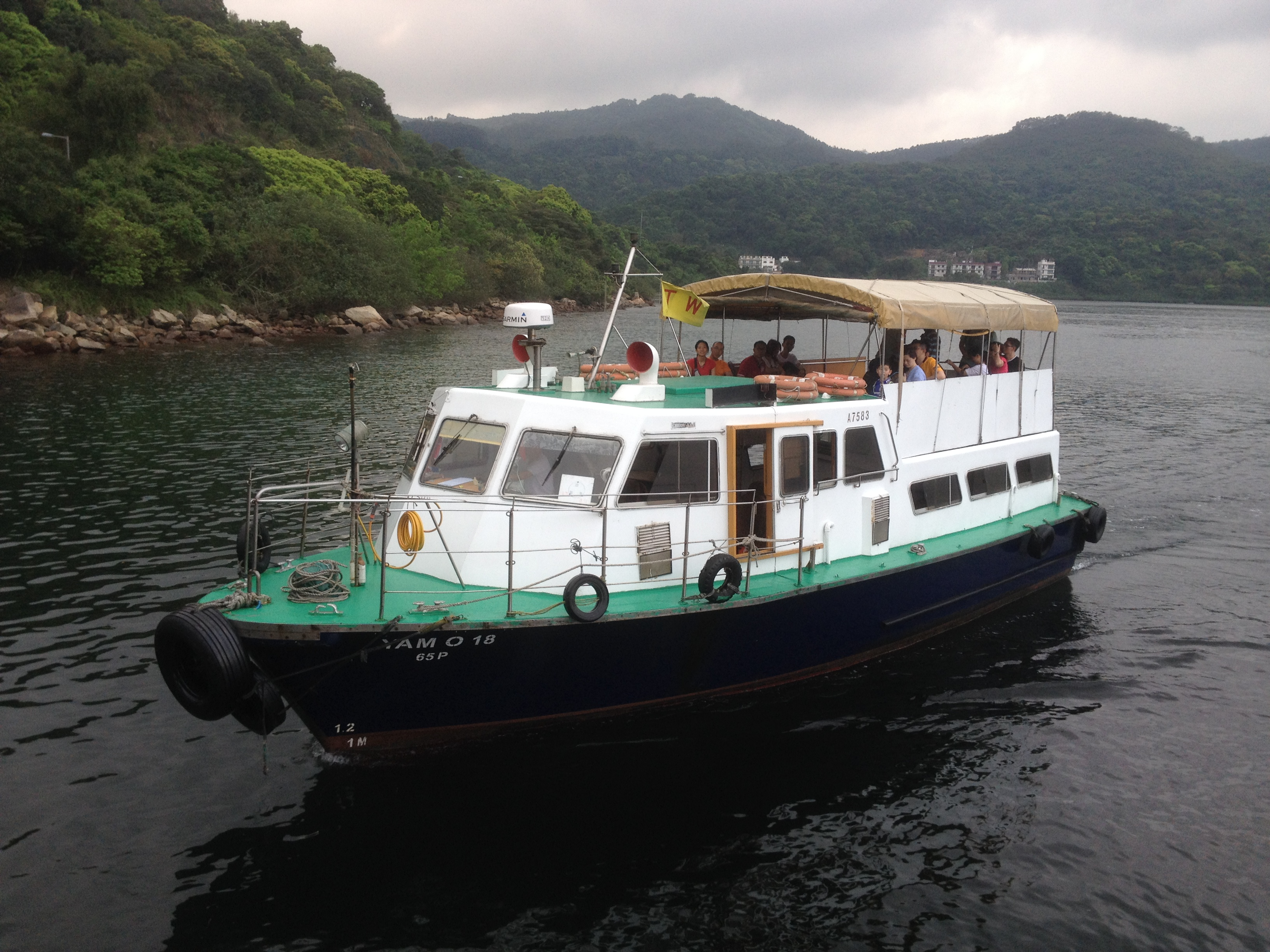 This photo is taken in Wong Shek Pier.